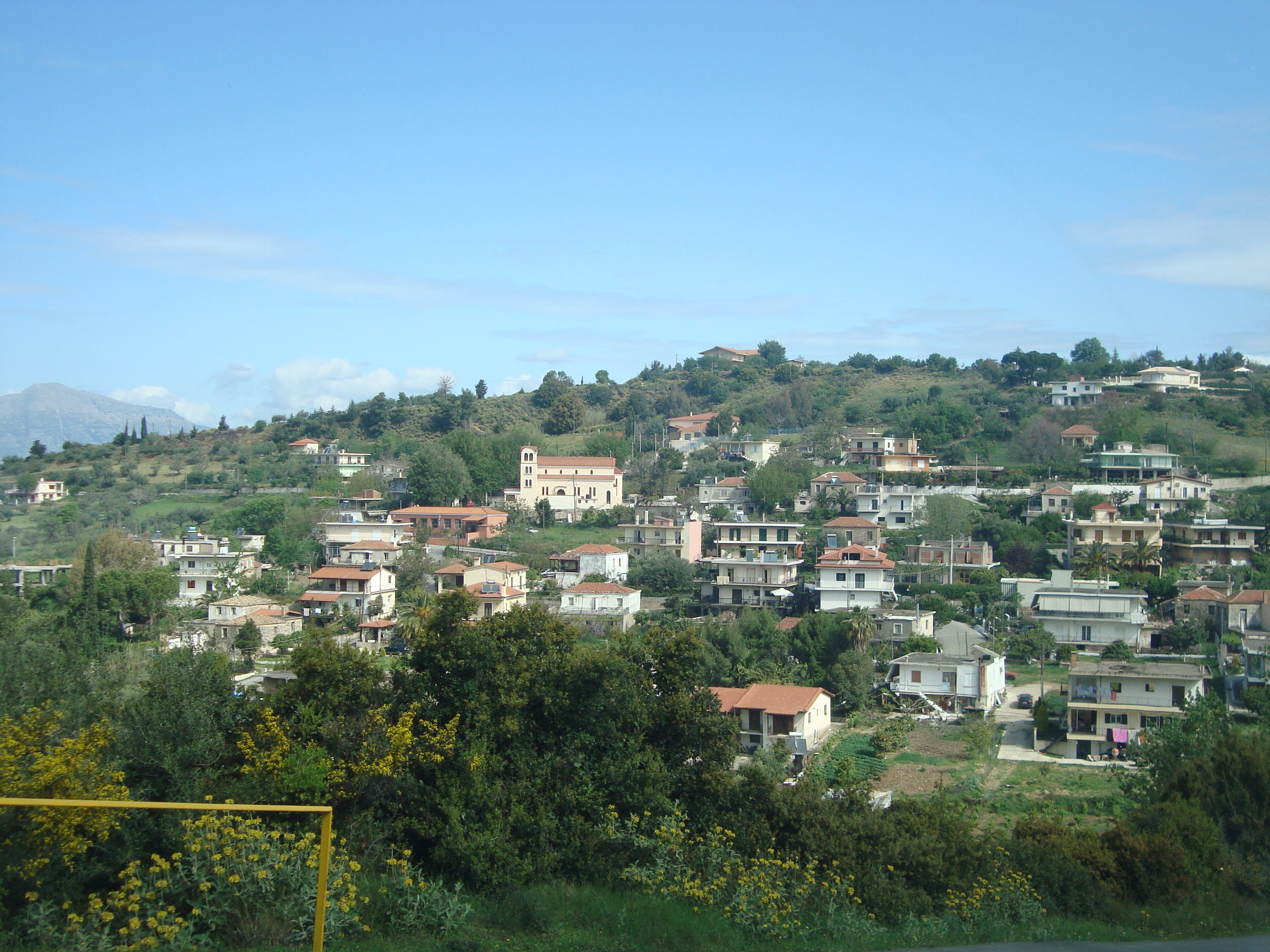 Voundeni village in Achaea Greece